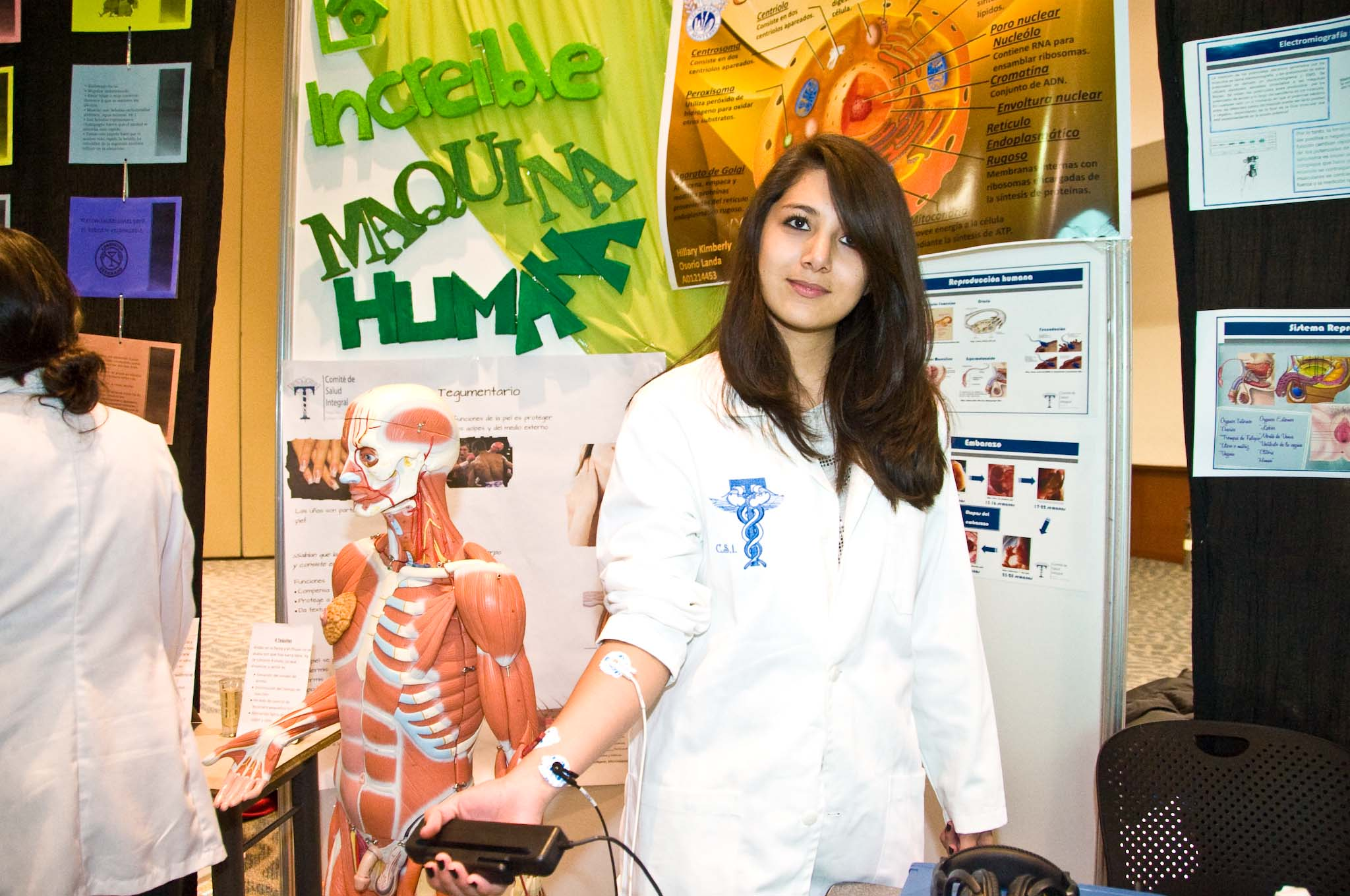 Medical Student from ITESM CCM using a Biopac